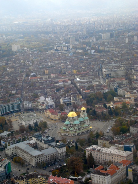 Aerial View of downtown Sofia, Bulgaria.